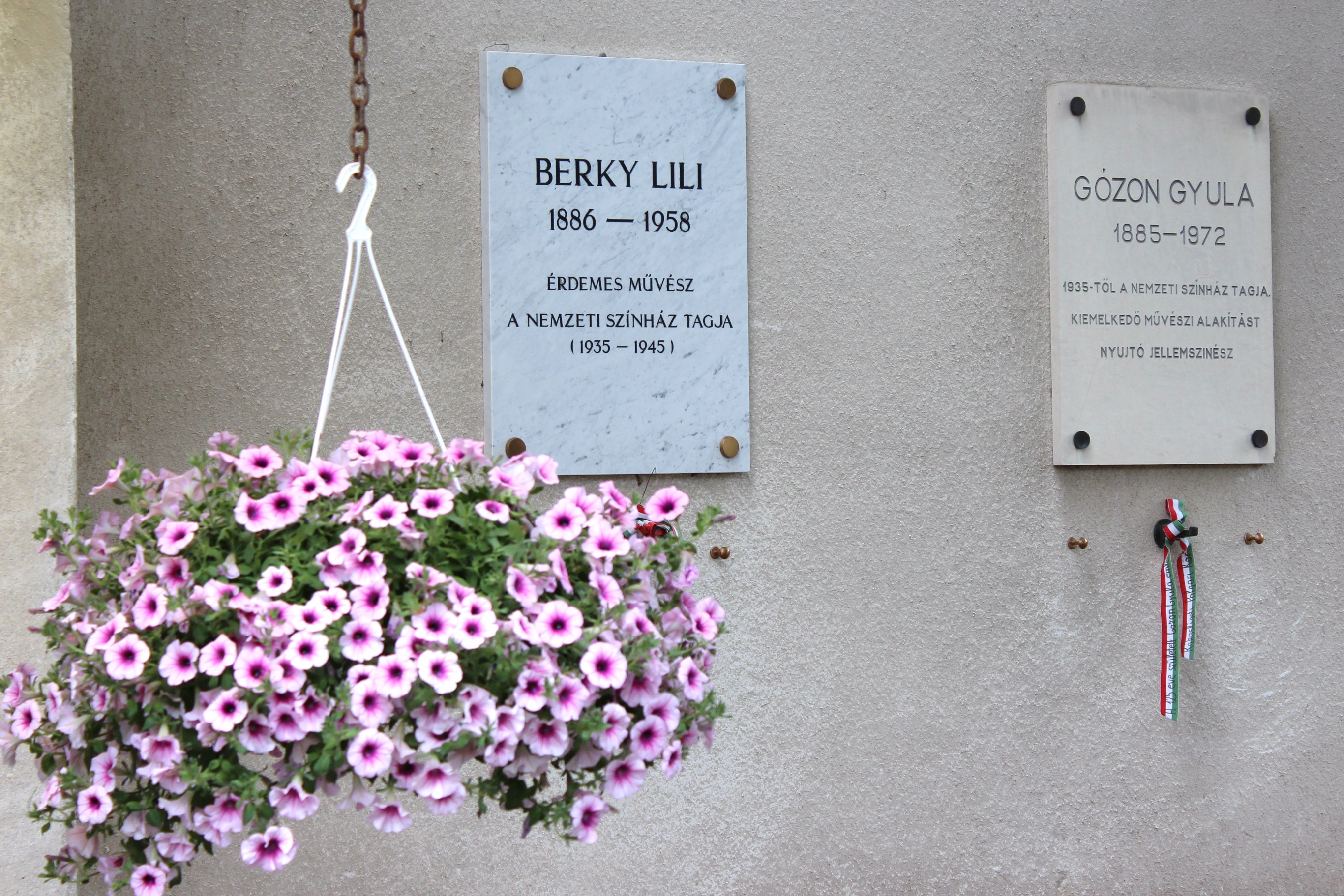 Plaques of Gózon Gyula and Berky Lili on Gózon-villa, Rákosliget